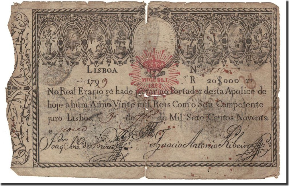 1799 Portugal banknote for 20,000 Reis